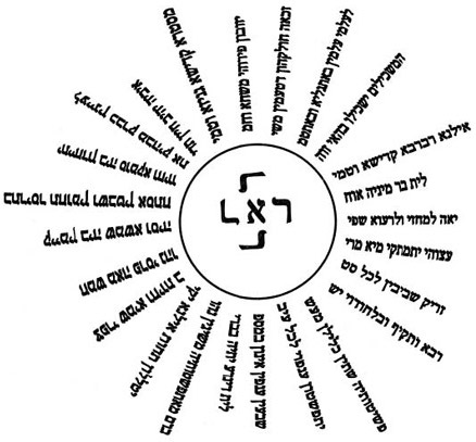 A mandala-like swastika, composed of Hebrew letters and surrounded by a circle and a mystical hymn in Aramaic. Appears in the Kabbalistic work "Parashat Eliezer" by Rabbi Eliezer ben Isaac Fischel of Strizhov, a commentary on the ancient eschatological book "Karnayim", ascribed to Rabbi Aharon of Kardina. The shape of the symbol and the contents of the hymn show strong solar symbolism.